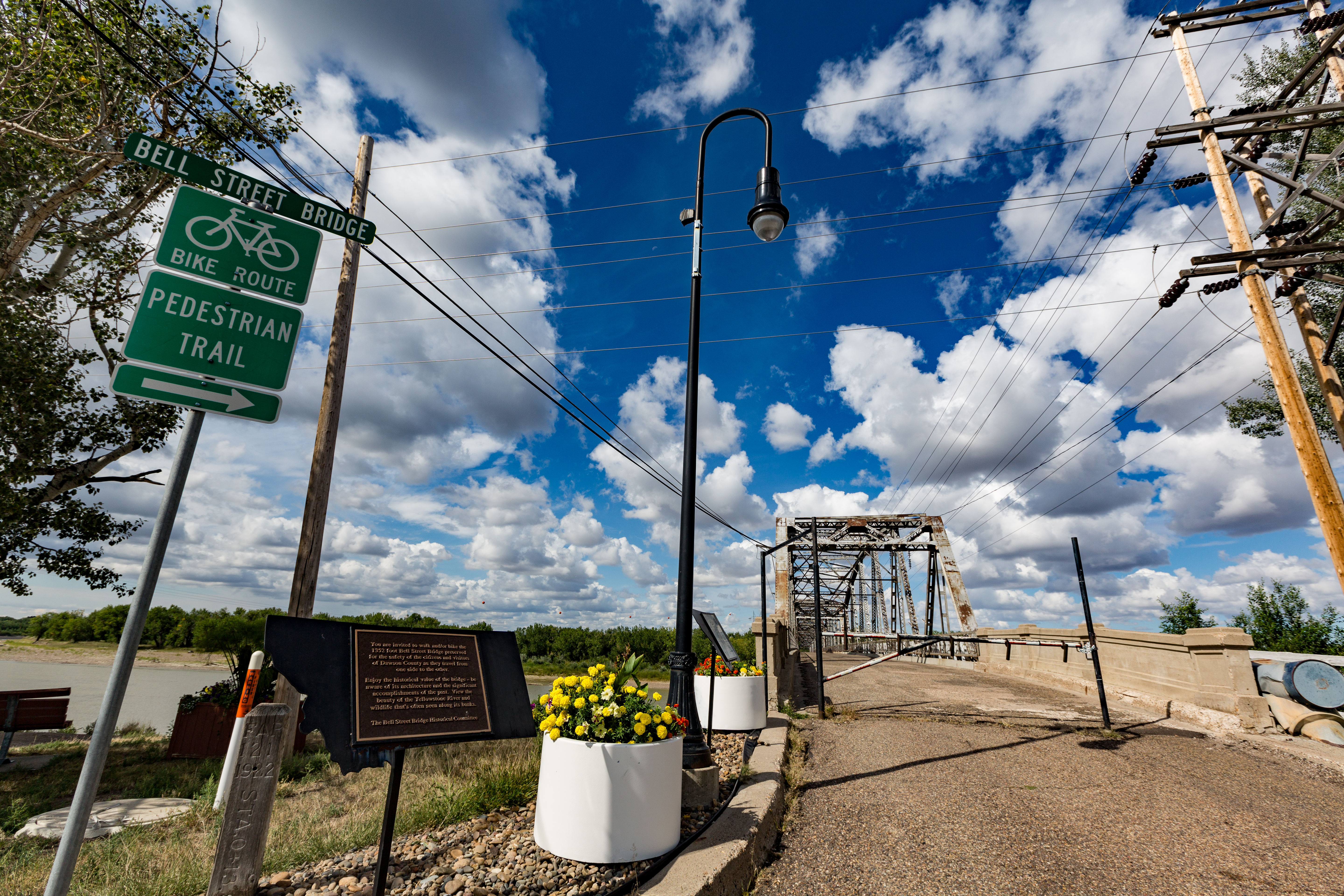 The historic Bell Street Bridge in Glendive, Montana, converted to bicycle and pedestrian use.